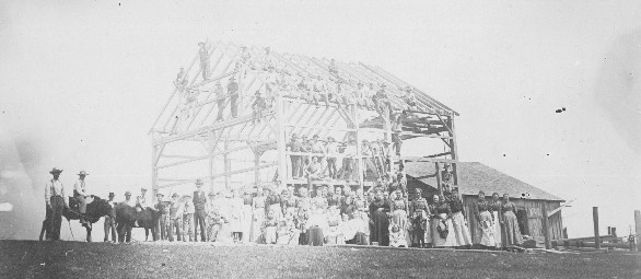 This photo by professional photographer J.E. Curtis is of a barn raising on the farm of Daniel and Matilda Dickerhoff in Stafford Township, DeKalb County, Indiana, around the year en:1900. See Category:DeKalb County, Indiana